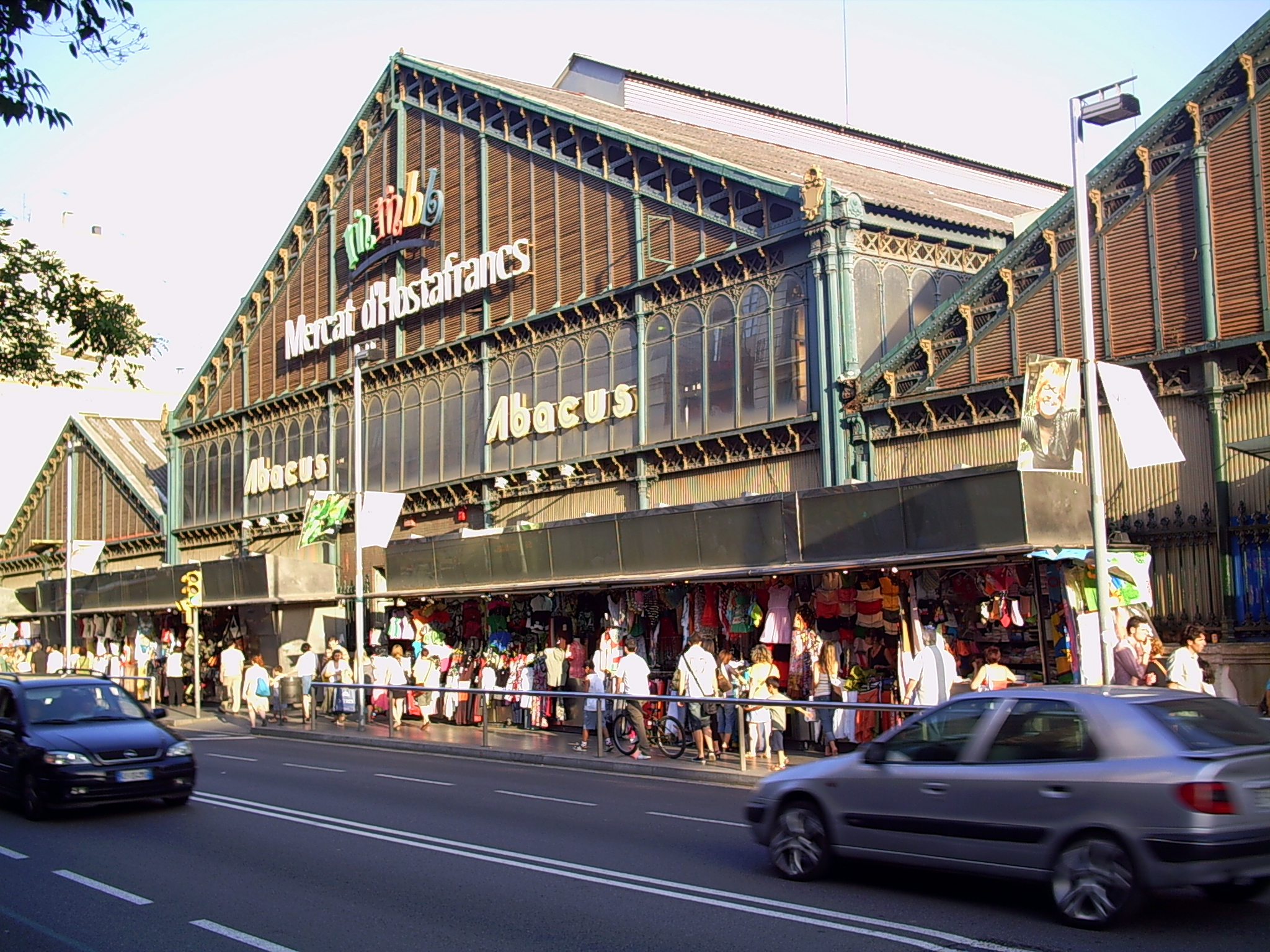 Mercat d'Hostrafranchs (Barcelona)